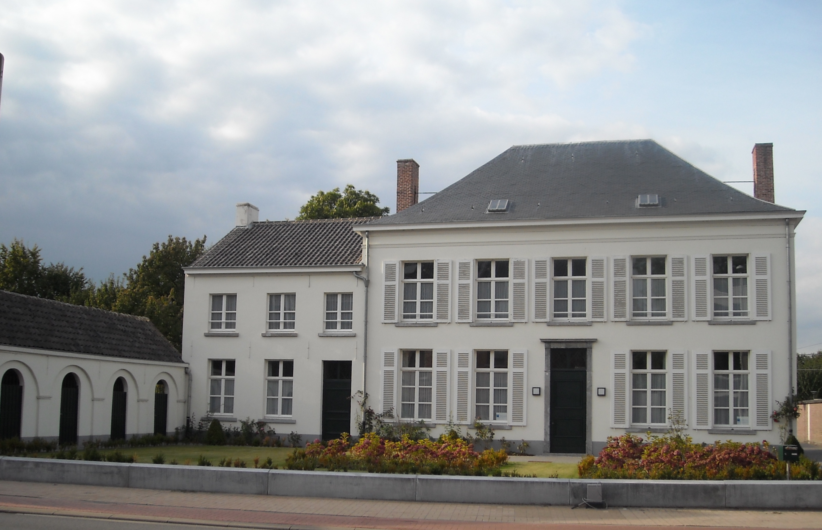 Rectory, Zwijndrecht, Belgium. Dorp Oost 42, 18th-19th century